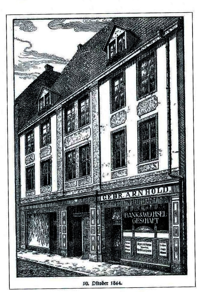 Gebrüder Arnhold Bank&Wechselgeschäft Abbildung der Hauptgeschäftsstelle in der Waisenhausstraße Dresden 1864